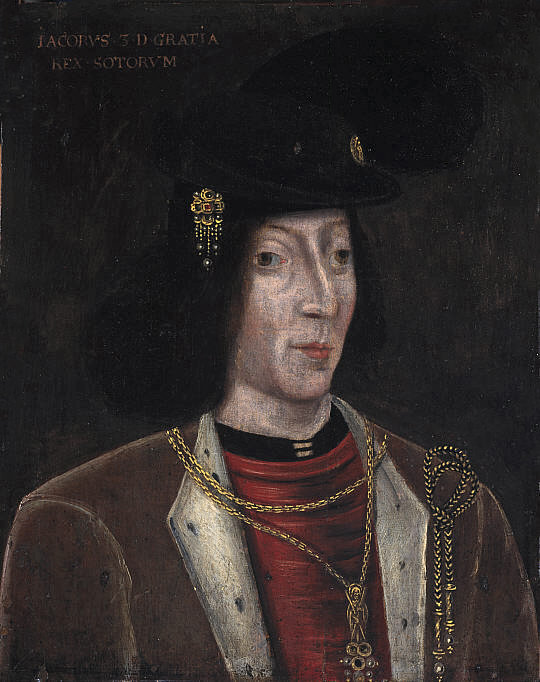 Posthumous portrait of James III of Scotland